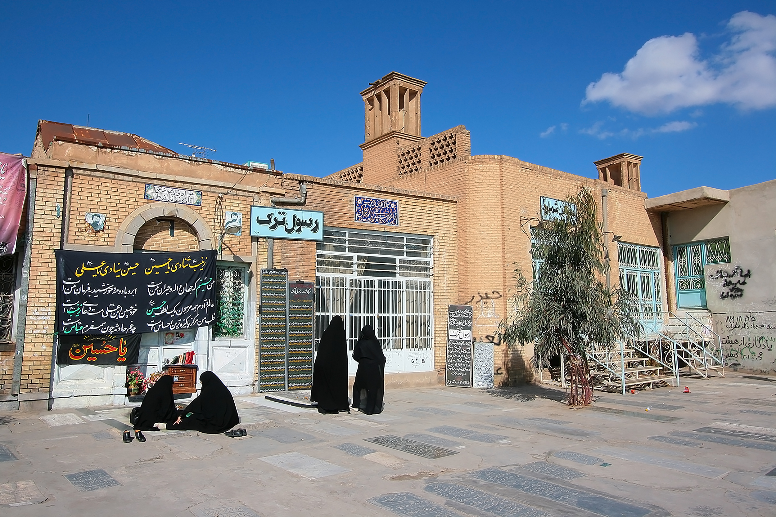 Qom County (Persian: قم) is the only county in Qom Province in Iran, with which it is coextensive. The capital of the county is Qom. At the 2006 census, the county's population was 1,036,714, in 262,313 families. The county has five districts: Jafarabad District, Khalajastan District, the Central District, Kahak District, and Salafchegan District. The county has six cities: Dastjerd, Jafariyeh, Kahak, Qom, Qanavat, and Salafchegan.